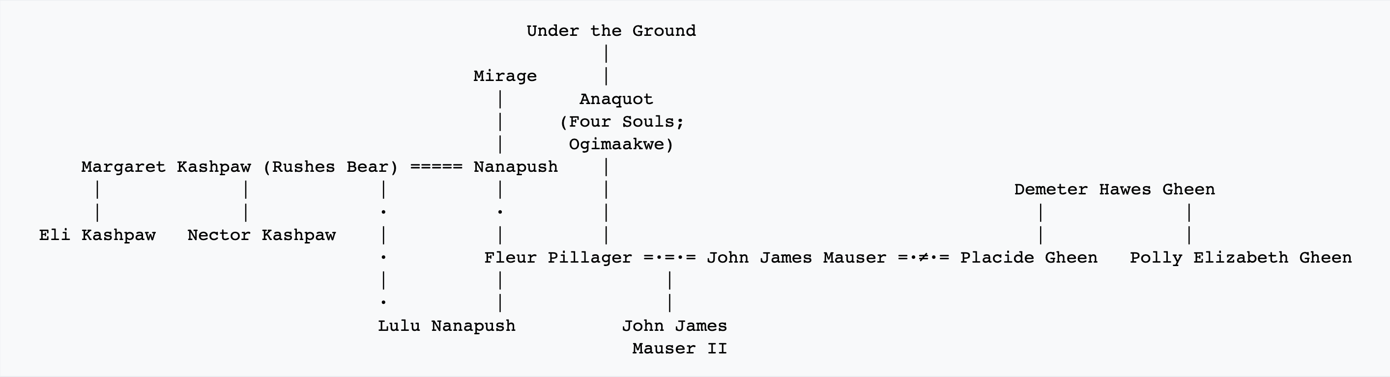 a screenshot of a family tree I made in the source editing mode of Wikipedia in order to avoid the misformatting on older or smaller browsers